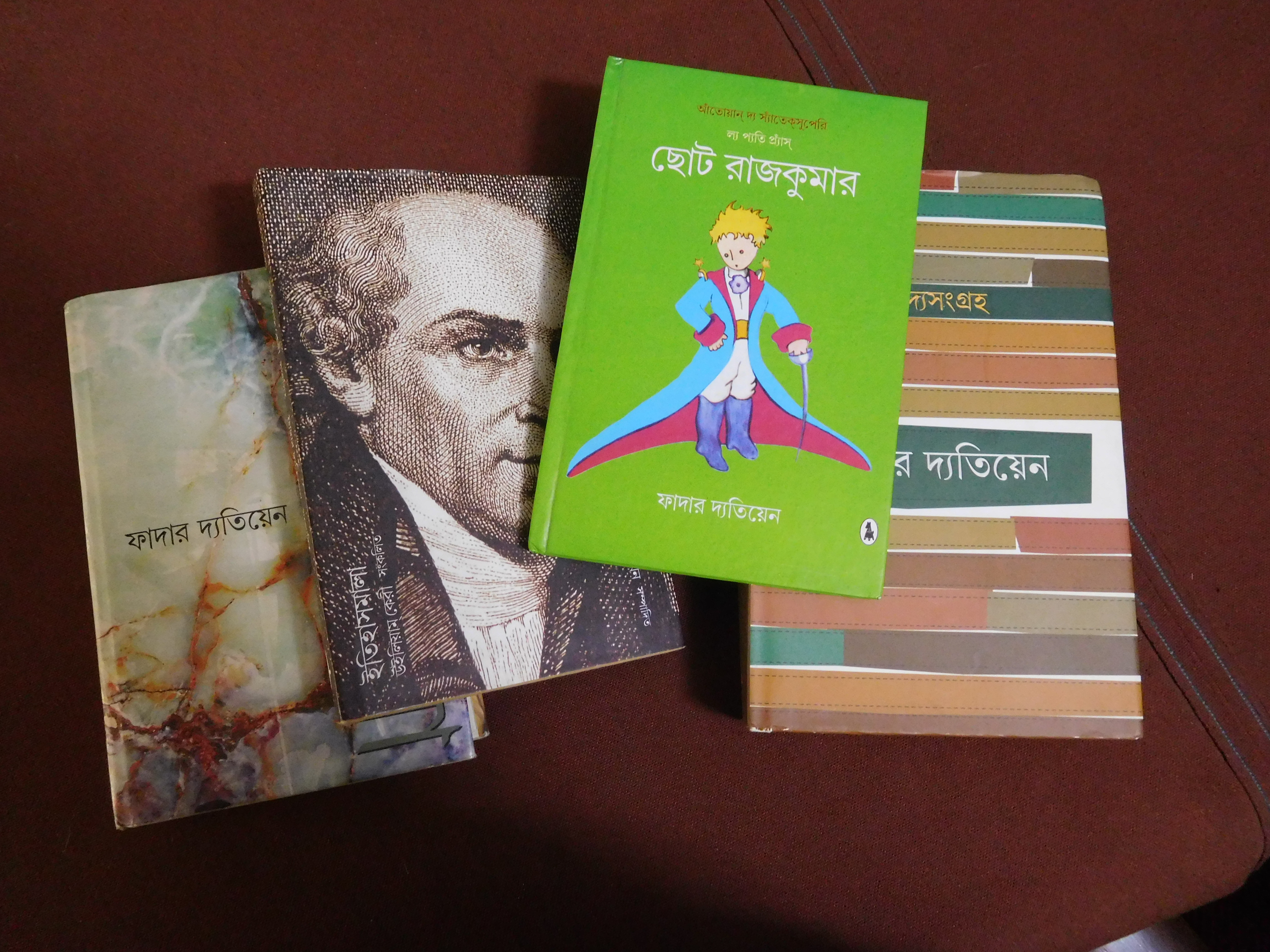 Bengali publications of Belgian Jesuit father Paul Detienne